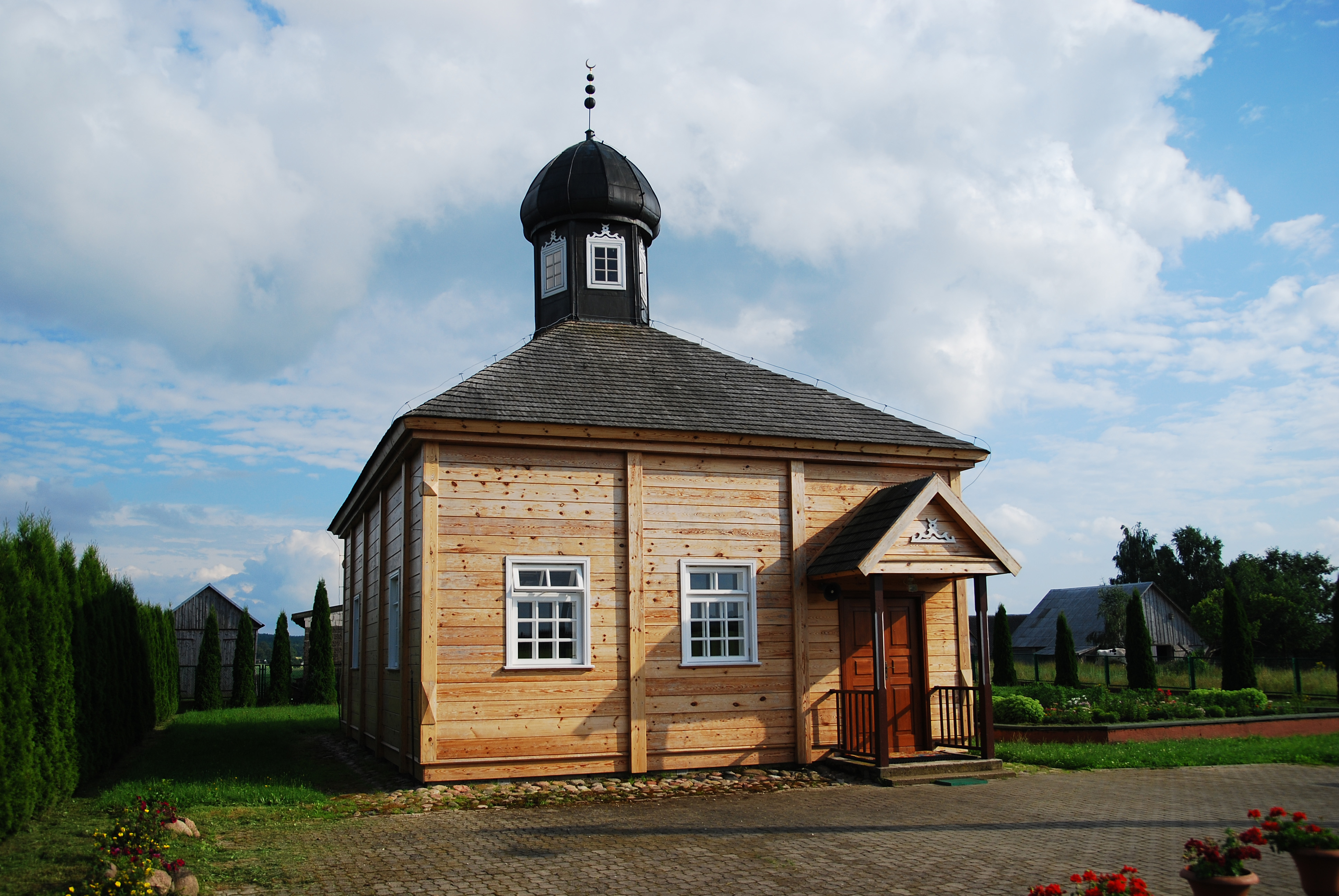 This photo from Podlaskie Voievodeship was taken during Polish Wikiexpedition 2009 set up by Wikimedia Polska Association. The making of this document was supported by Wikimedia Polska. Meczet w Bohonikach